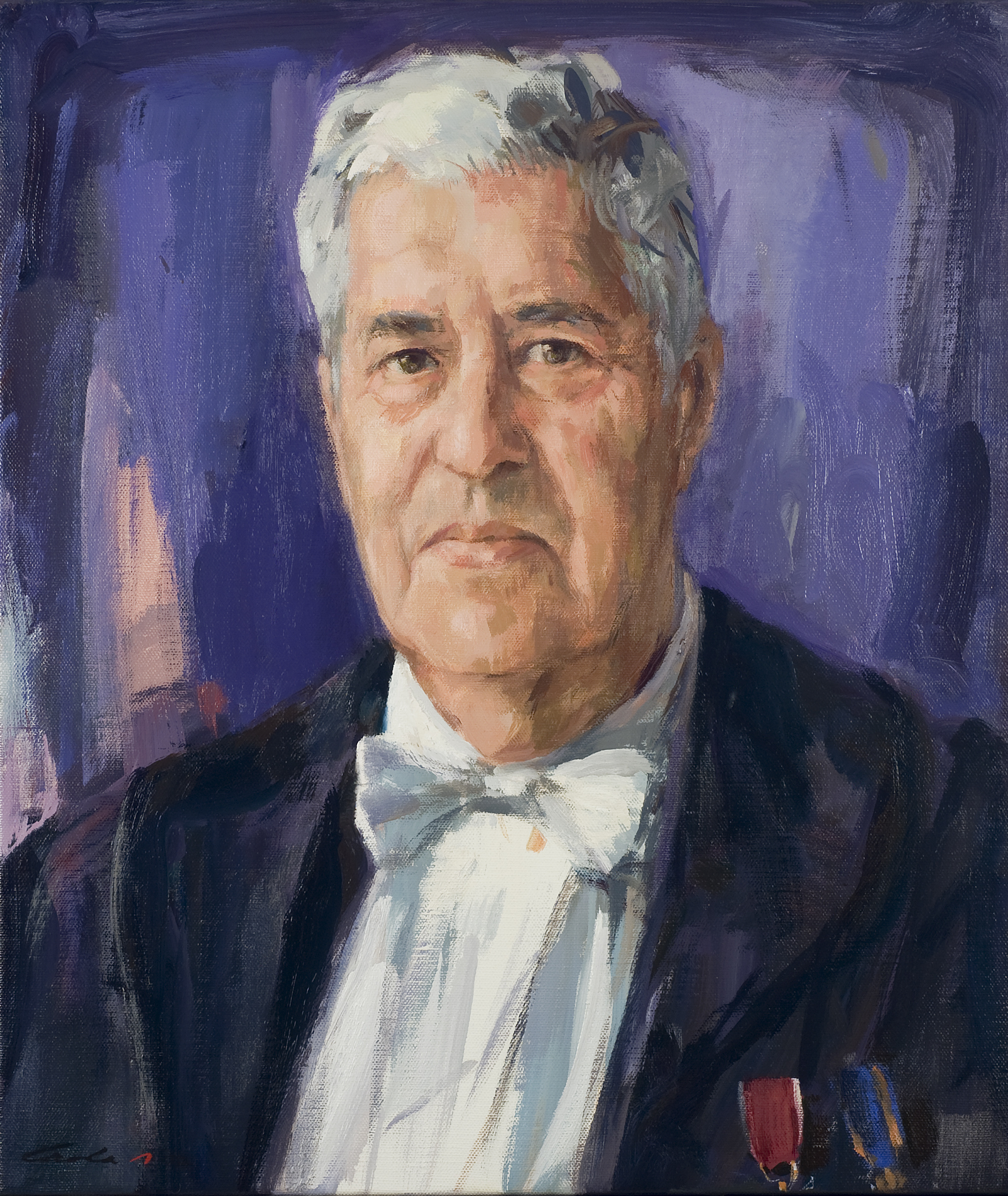 Prof.Dr. H. Wijnberg